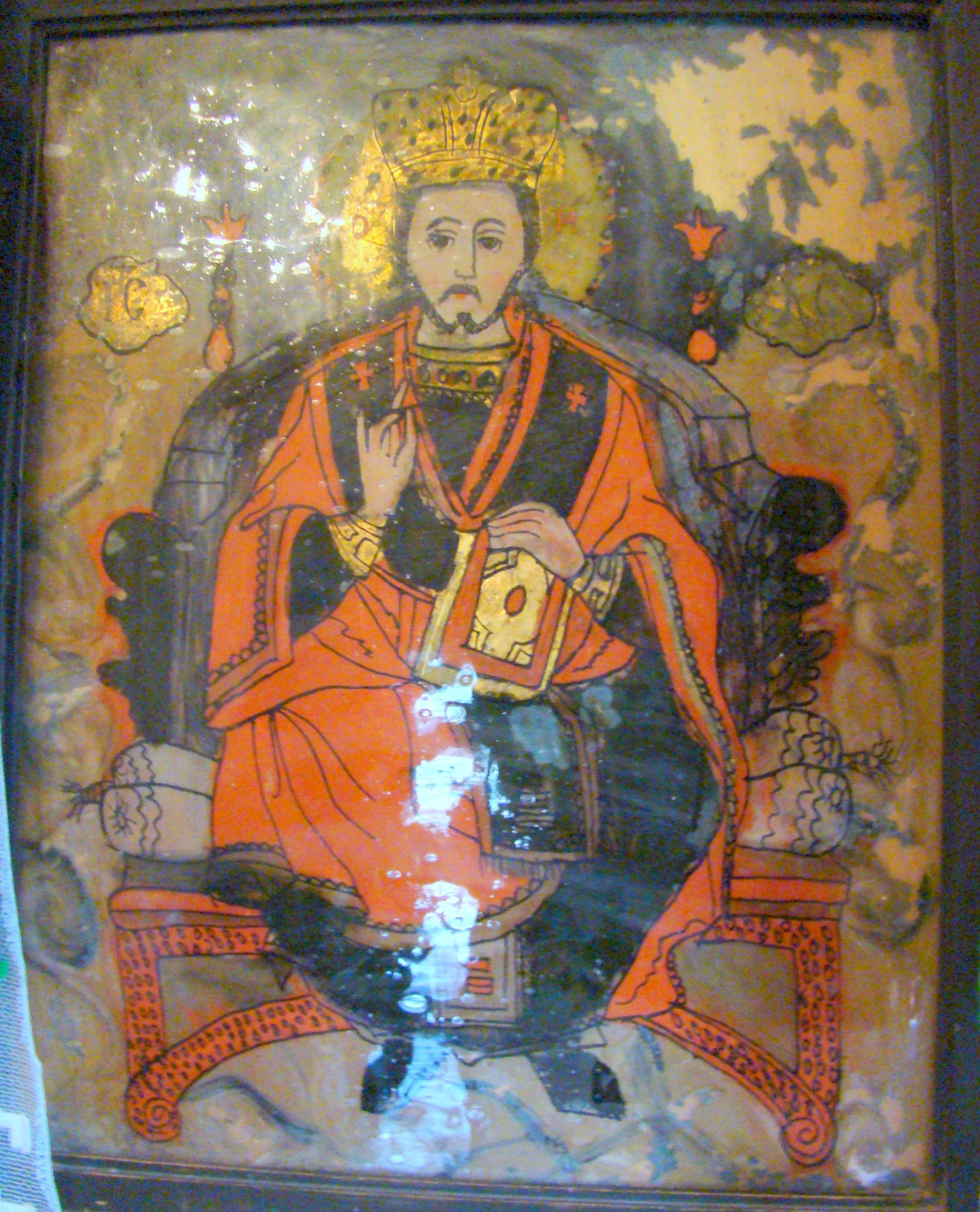 Wooden church in Micănești, Hunedoara county